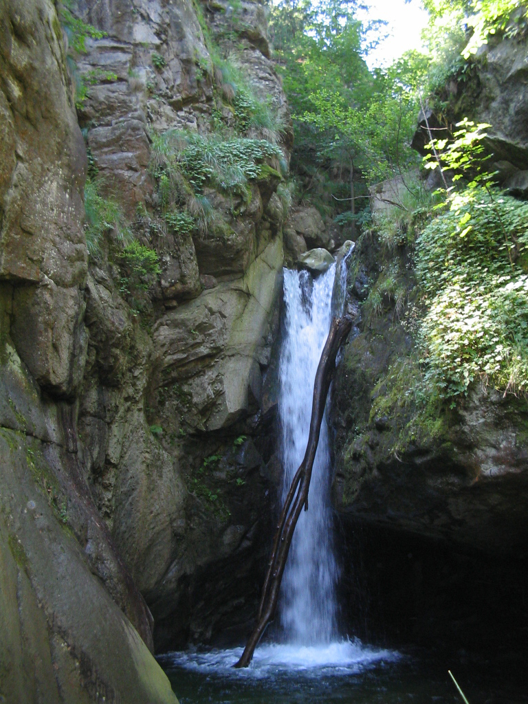 Village of Kostenets in Bulgaria